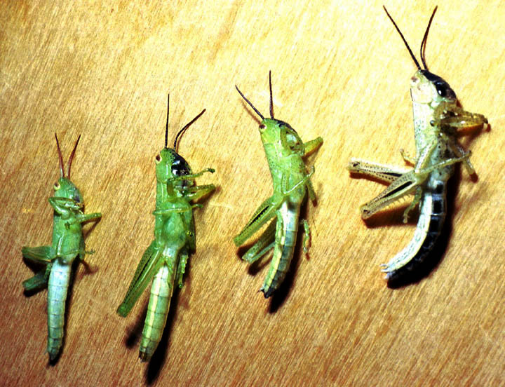 Hieroglyphus daganensis nymphs (from PPB, Mali) showing blackening (right) on crowding